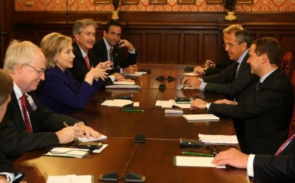 Ambassador to Russian Federation John Beyrle and Secretary of State Hillary Clinton meet with Russian President Dmitry Medvedev in Moscow, October 13, 2009